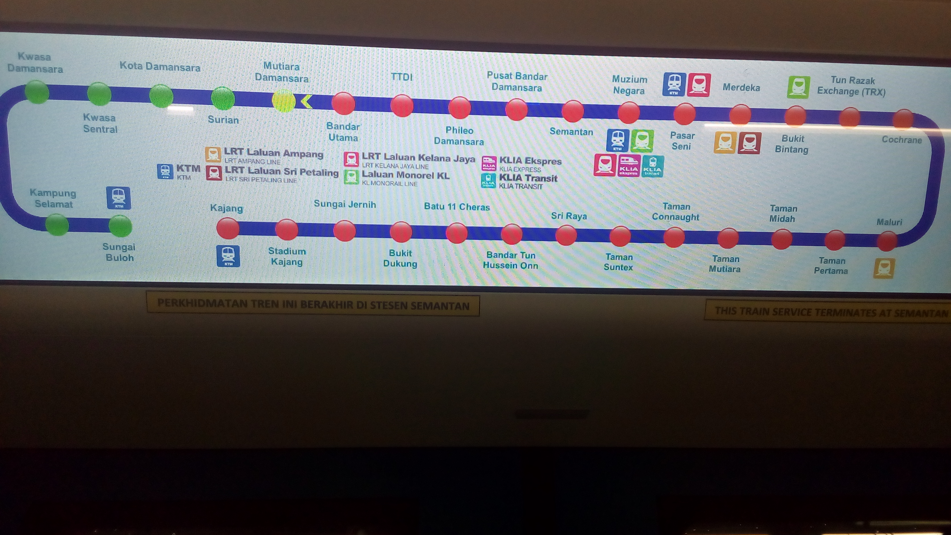 MRT SBK Line Route